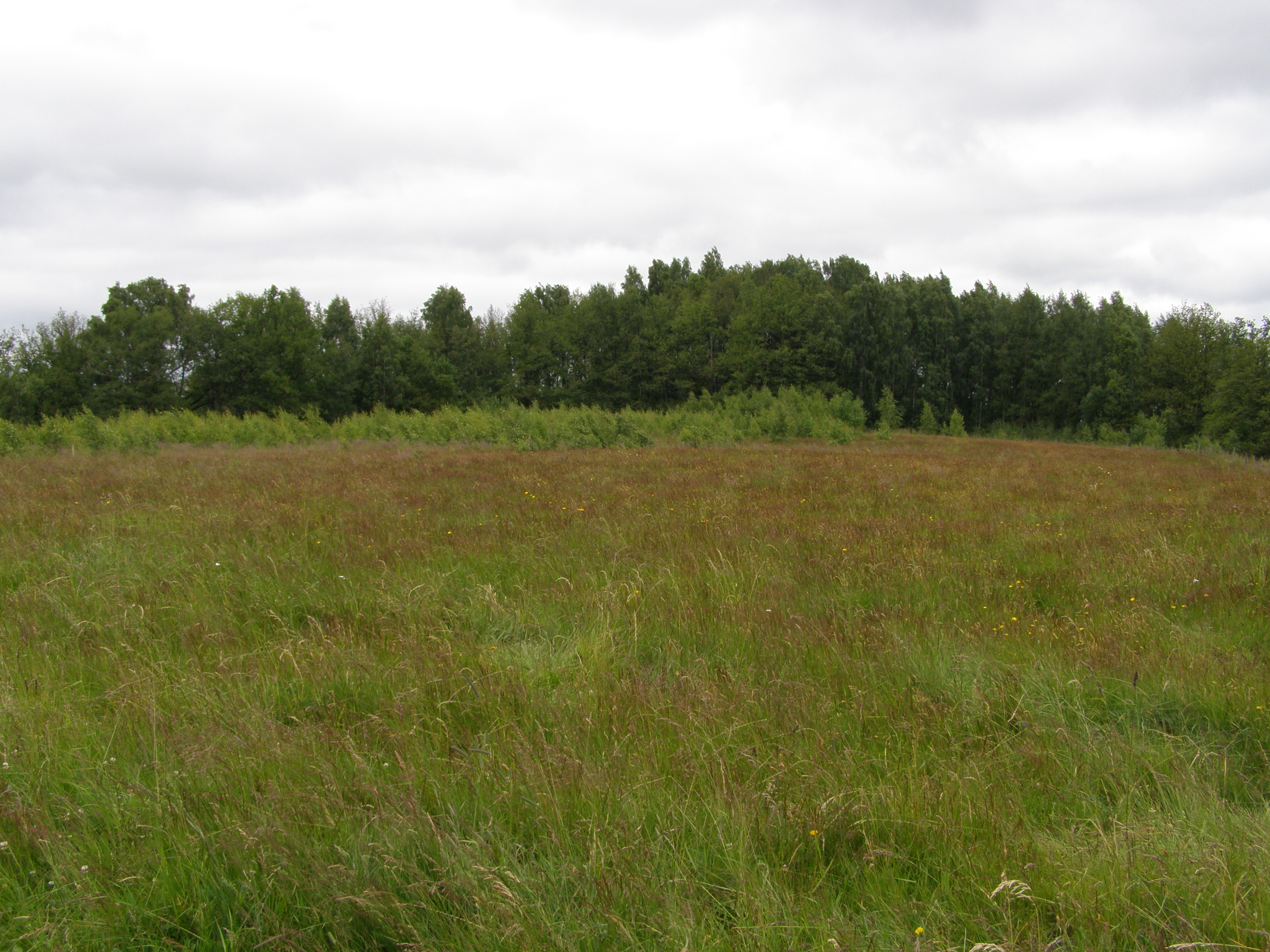 Martynaičiai Hillfort, Kretinga district, Lithuania